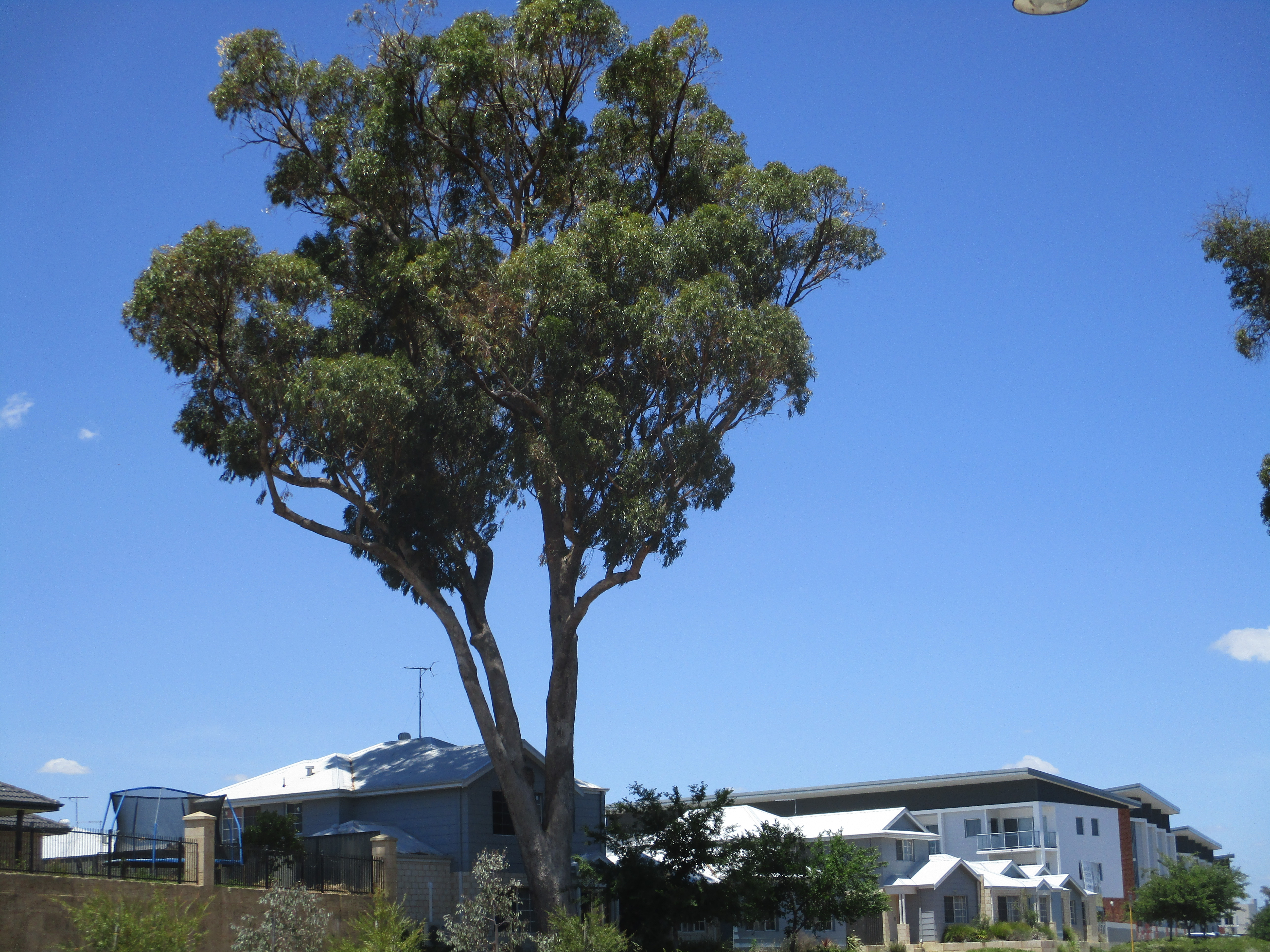 Baldivis housing estate on Nairn Drive, Western Australia.